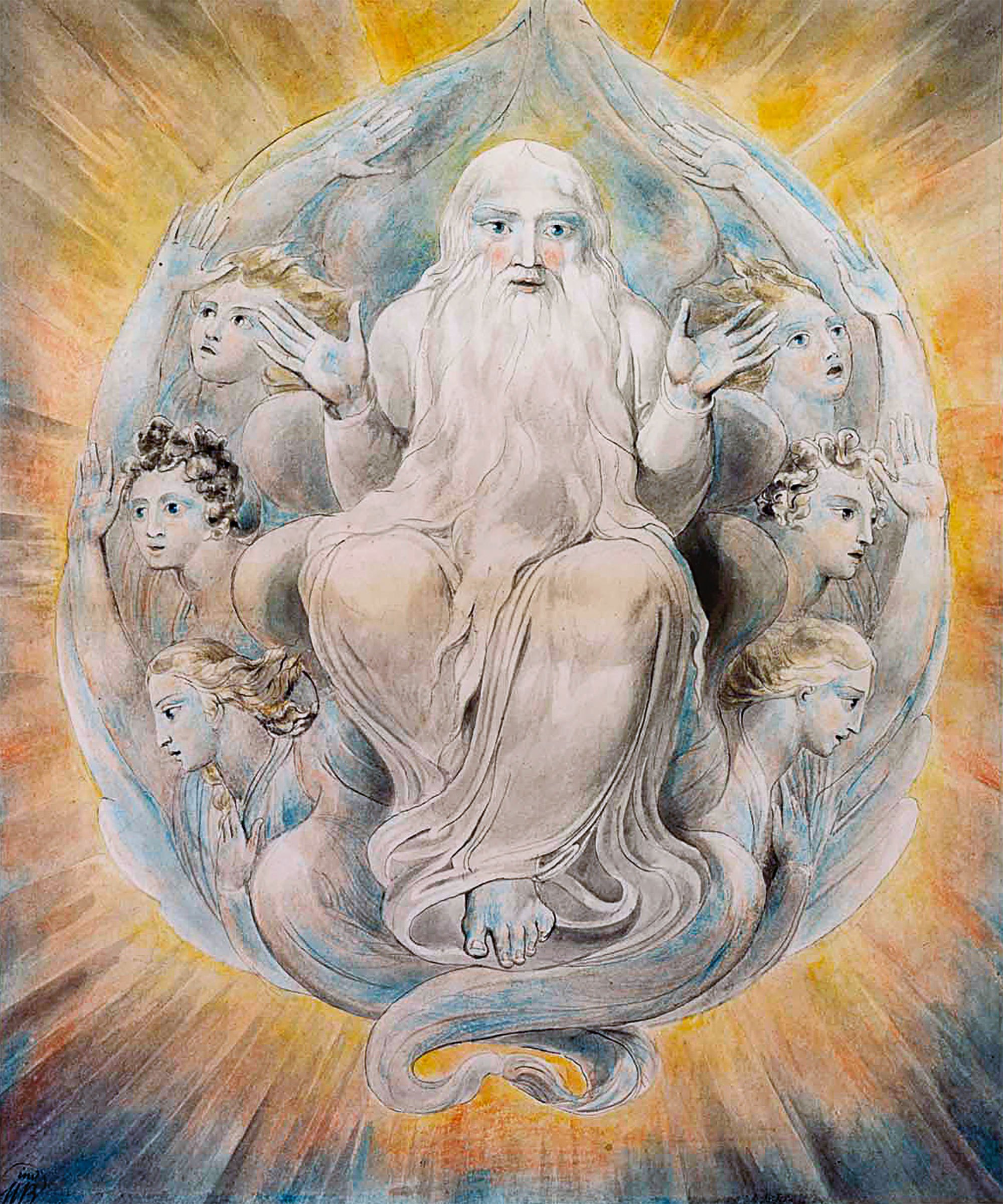 "God Blessing the Seventh Day" - a pen and watercolor painting by William Blake, c.1805, 42 x 35.5 cm. (16 x 14 in.). "Poet William Blake's `mercy, pity, peace and love' in action - I repeat `in action' - sum up the essence of what we mean by God," says author David Boulton.